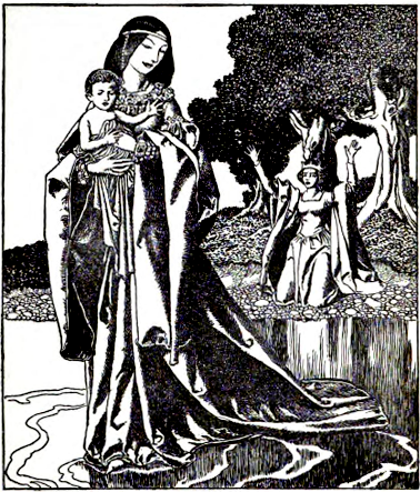 An illustration captioned "The Lady Nymue beareth away Launcelot into the Lakes".